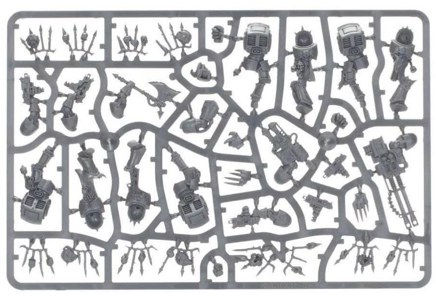 A sprue for a miniature wargaming figurine.